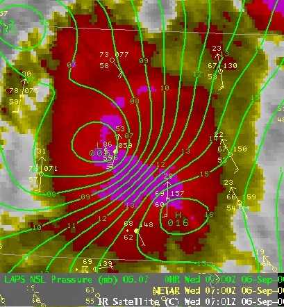 Zoom image showing surface observations and isobars superimposed on an IR satellite image, showing the relationship between a mesoscale high and a wake low.